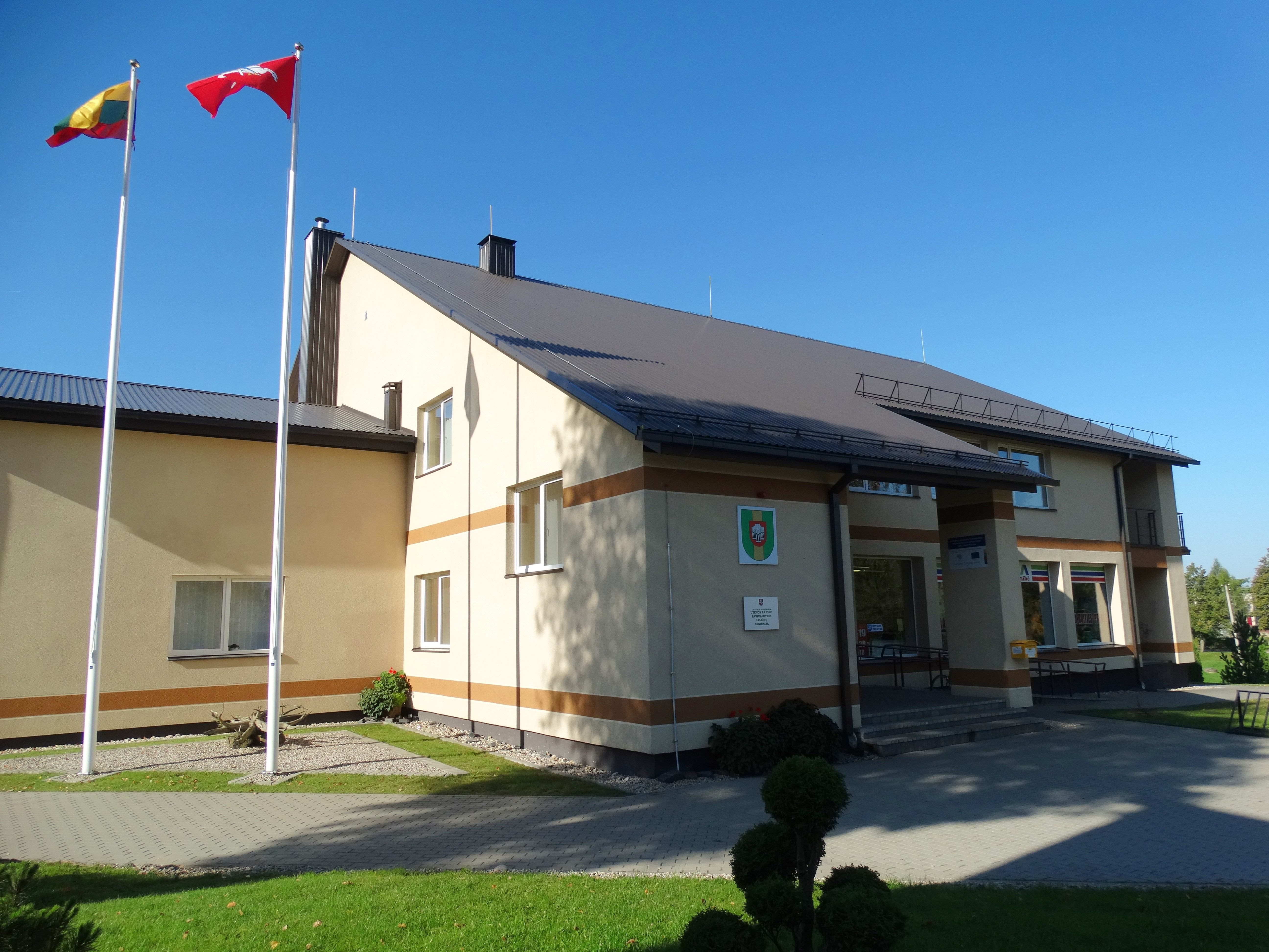 Eldership, Leliūnai, Utena District, Lithuania